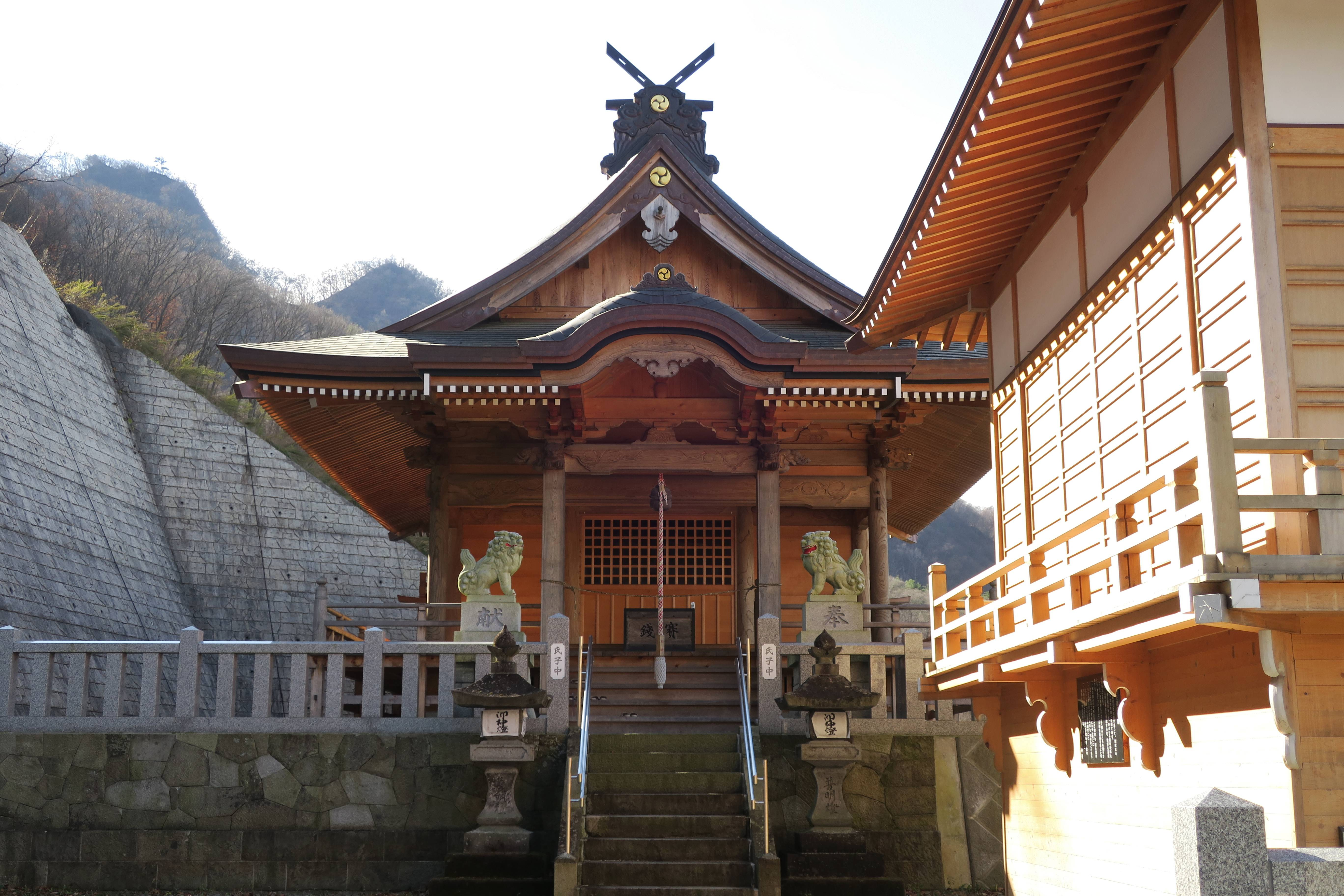 Kawarayu Onsen Kawarayu-jinja (Naganohara, Gunma).